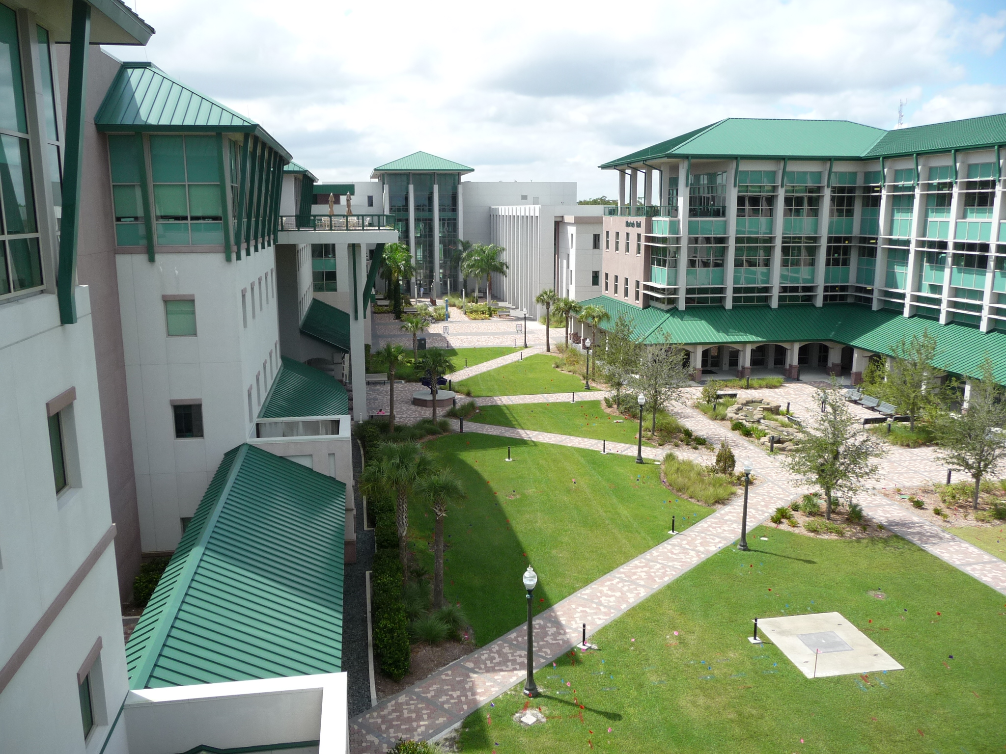 I am a founding faculty member who took this picture in the Fall of 2013 from the balcony near my office.